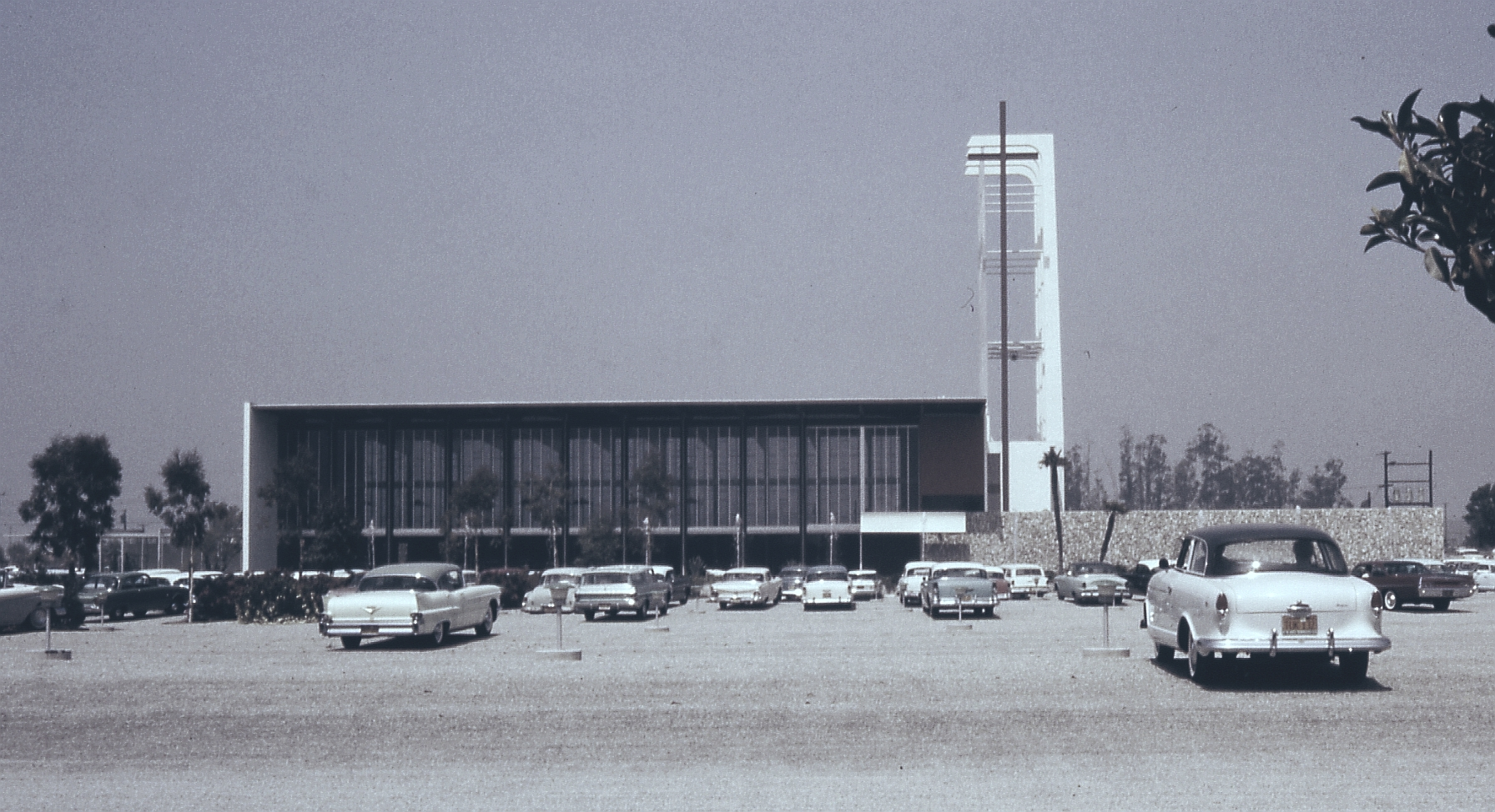 Rev. Robert Schuller's Garden Grove Community Drive-In Church, viewed from the drive-in area where members could remain in their vehicles during the services. Designed by architect Richard Neutra. Taken with an Exakta VX SLR 35mm camera, using Ektachrome slide film.